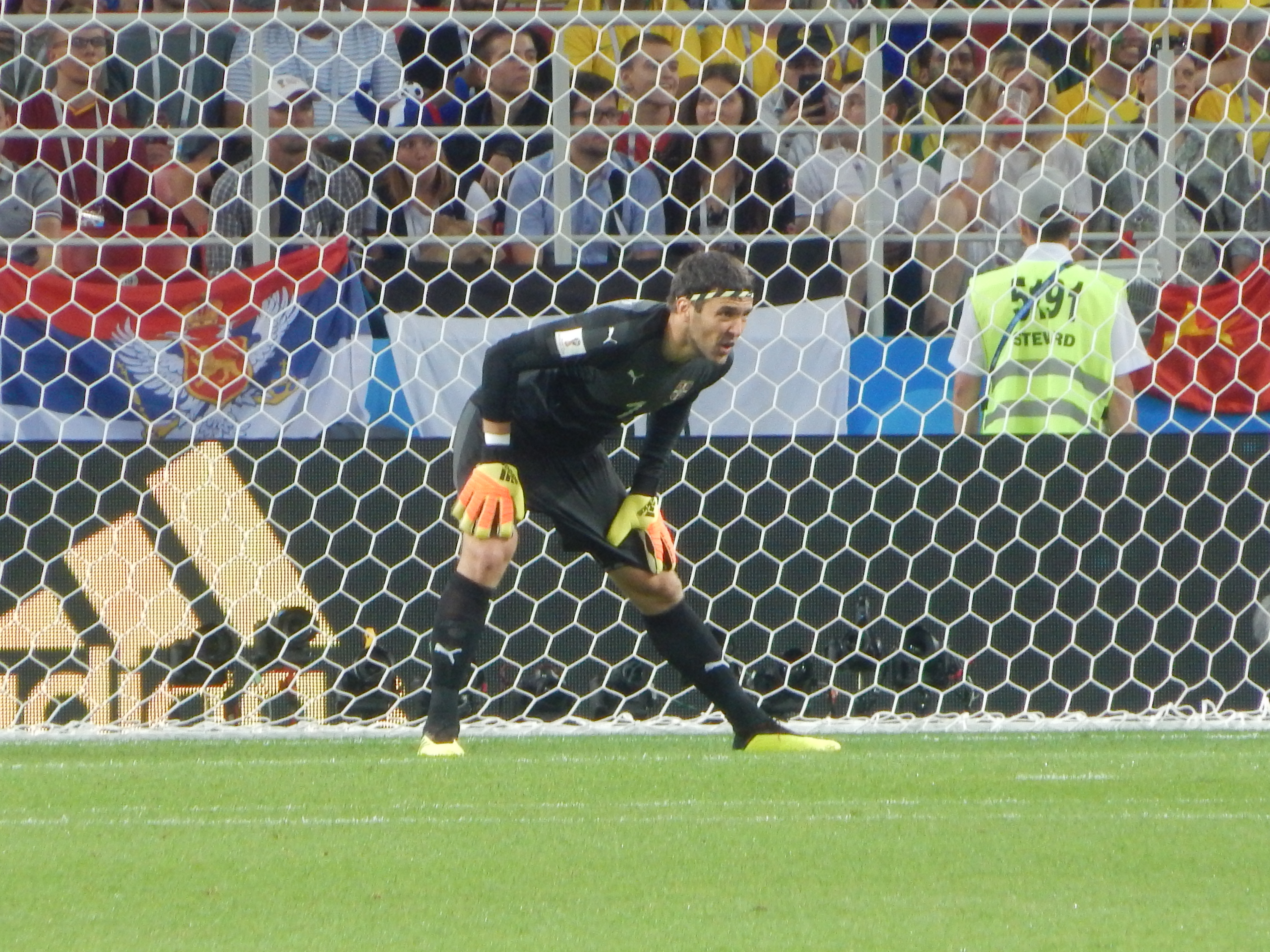 FIFA World Cup 2018, Group E, Serbia vs. Brazil